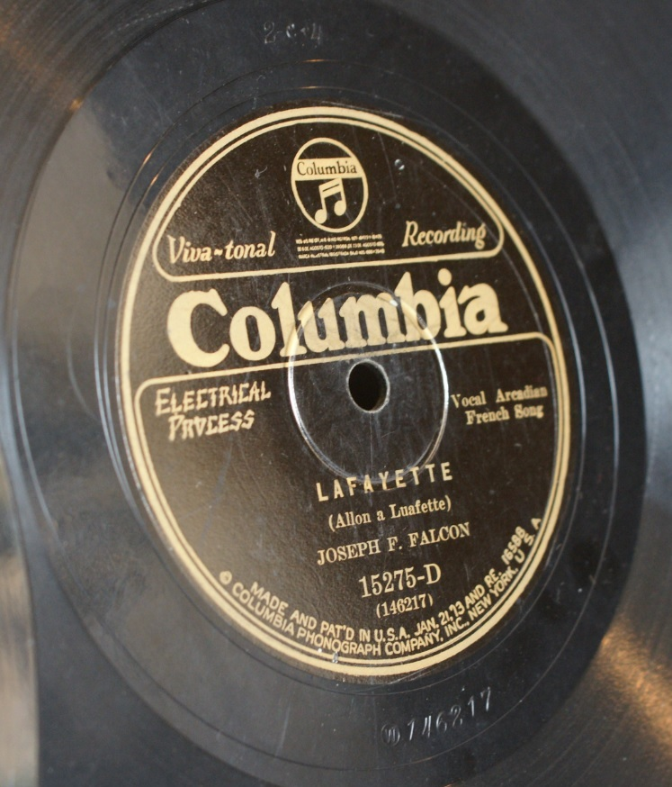 Fair Use Rationale: I took this picture. I release to public domain.